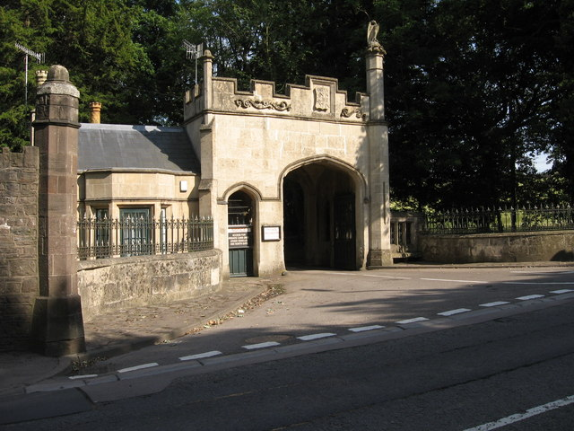 Gateway of the drive of LLantarnam Abbey, on the road to Newport.